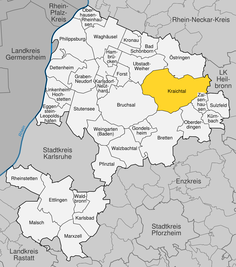 position of Kraichtal within distict of Karlsruhe, Baden-Württemberg, Germany